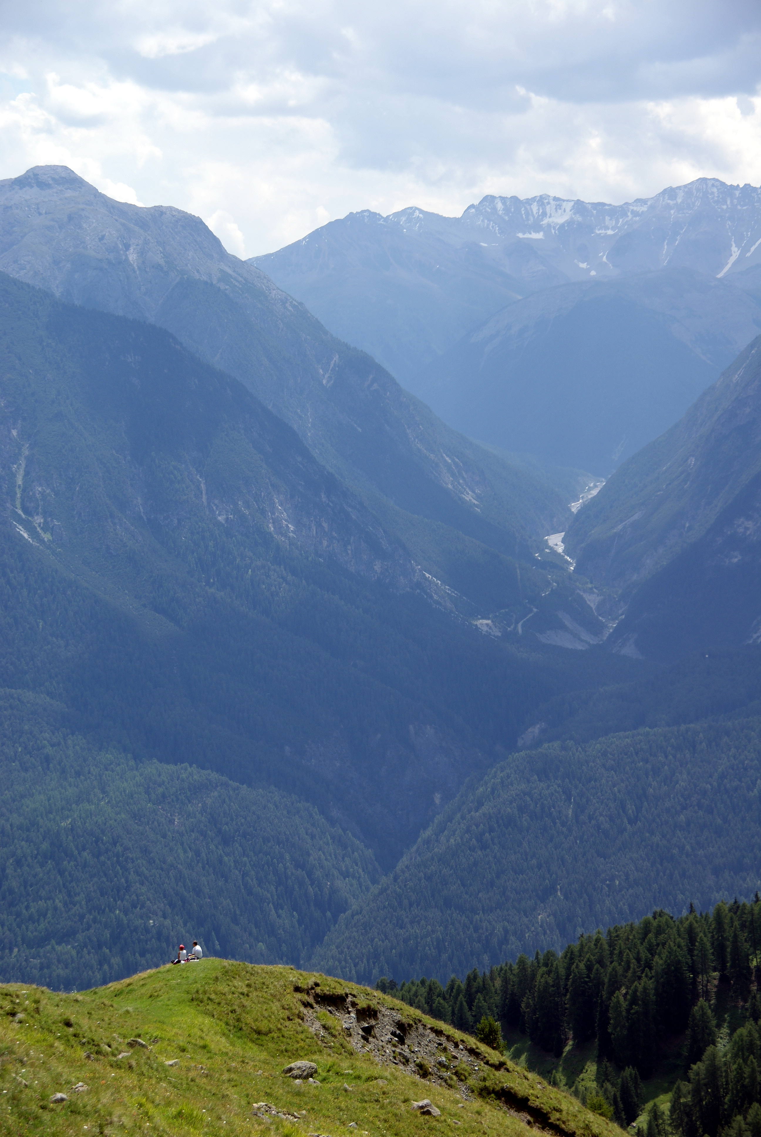 Val S-charl from Motta Naluns, Lower Engadine